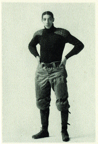 Bobby Marshall, Minnesota Gopher football player in 1902